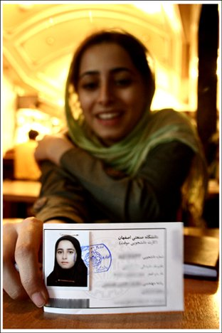 YES! from now on,she's a new girl! [Iranian women with her official documents]